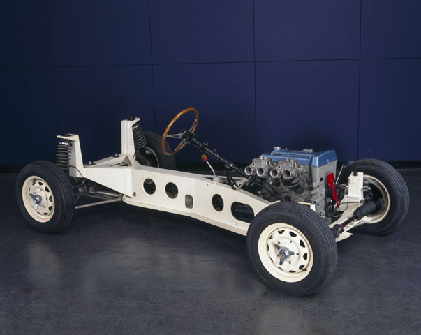 An object from the collections of the Science Museum (London) as copied from their ObjectWiki.